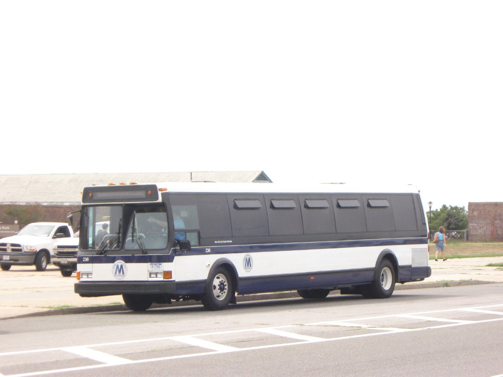 1980 NYC Transit Grumman 870 #236 arrives at Jacob Riis Park on a special excursion as one of eight museum buses in the excursion.